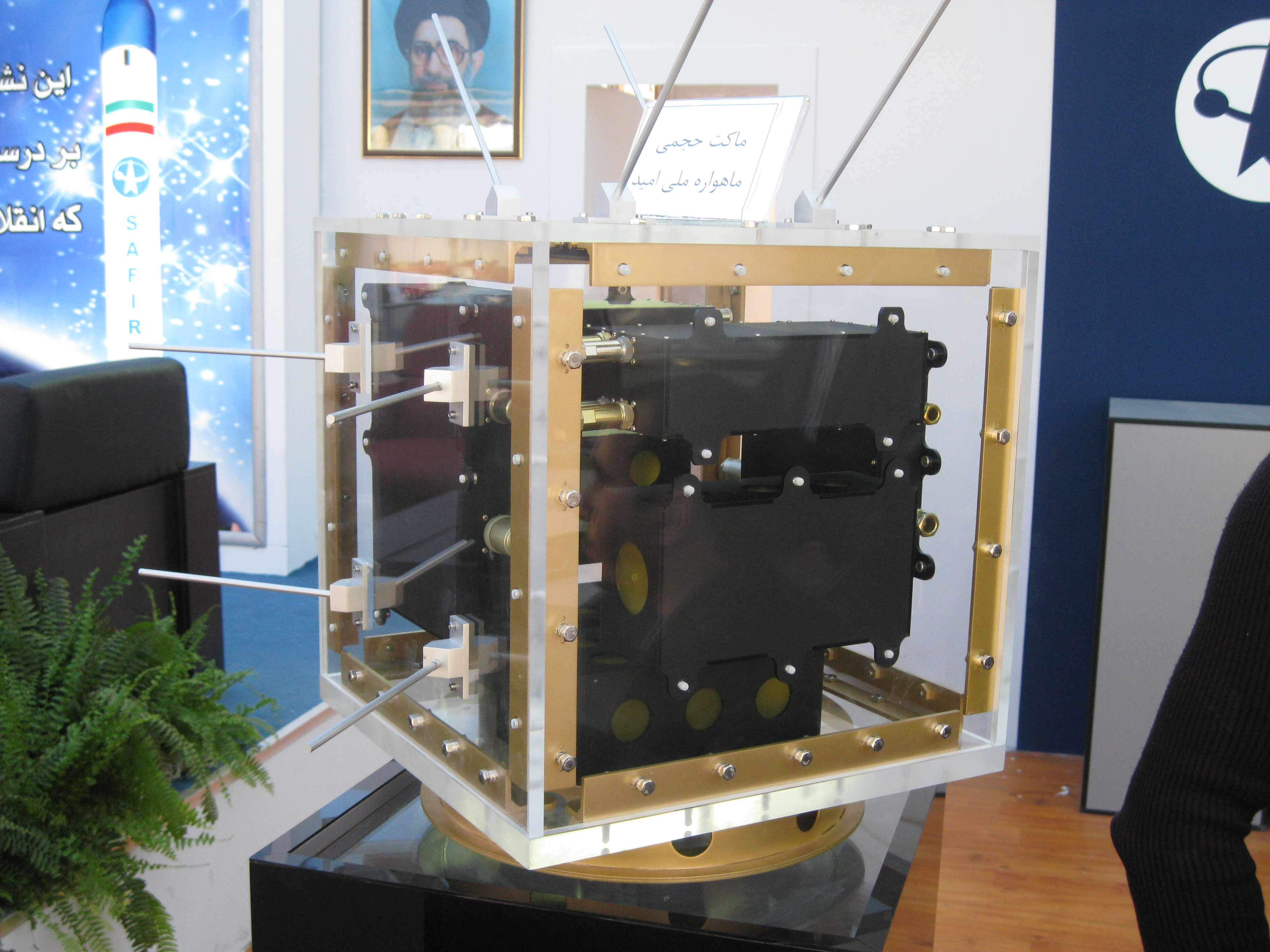 Omid [was Iran's first domestically made satellite Described as a data-processing satellite for research and telecommunications, Iran's state television reported that it was successfully launched on February 2, 2009